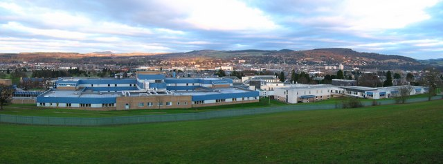 Perth Royal Infirmary. The back of the hospital, looking east across Perth from an area of park that used to contain a reservoir.